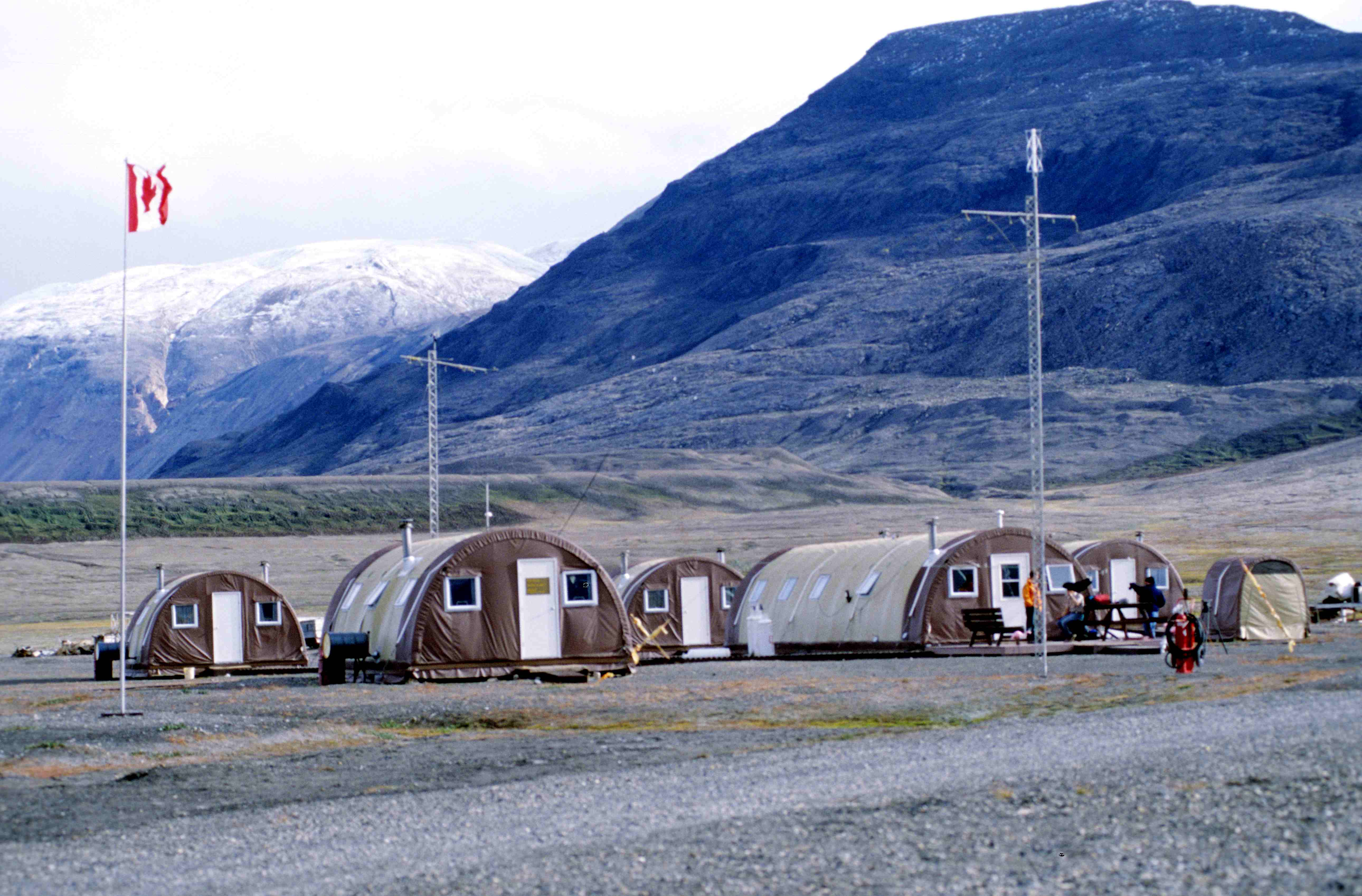 Jamesway tents (Tanquary Fiord Camp of Parks Canada); Quttinirpaaq National Park, Nunavut, Canada